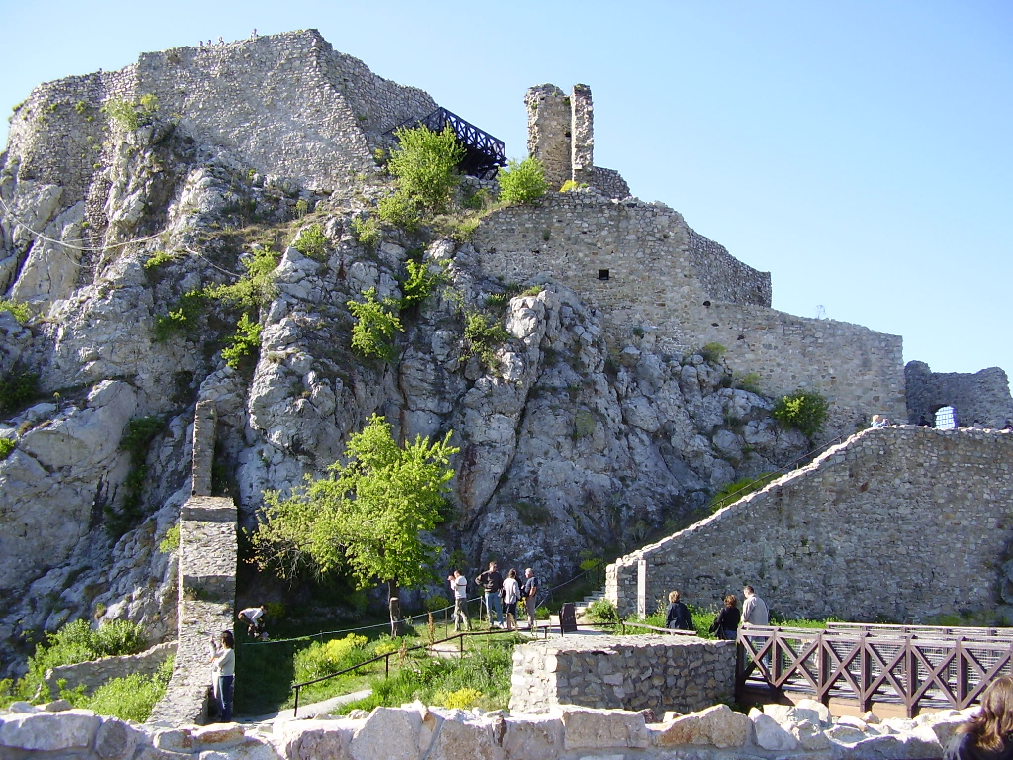 Devin Castle